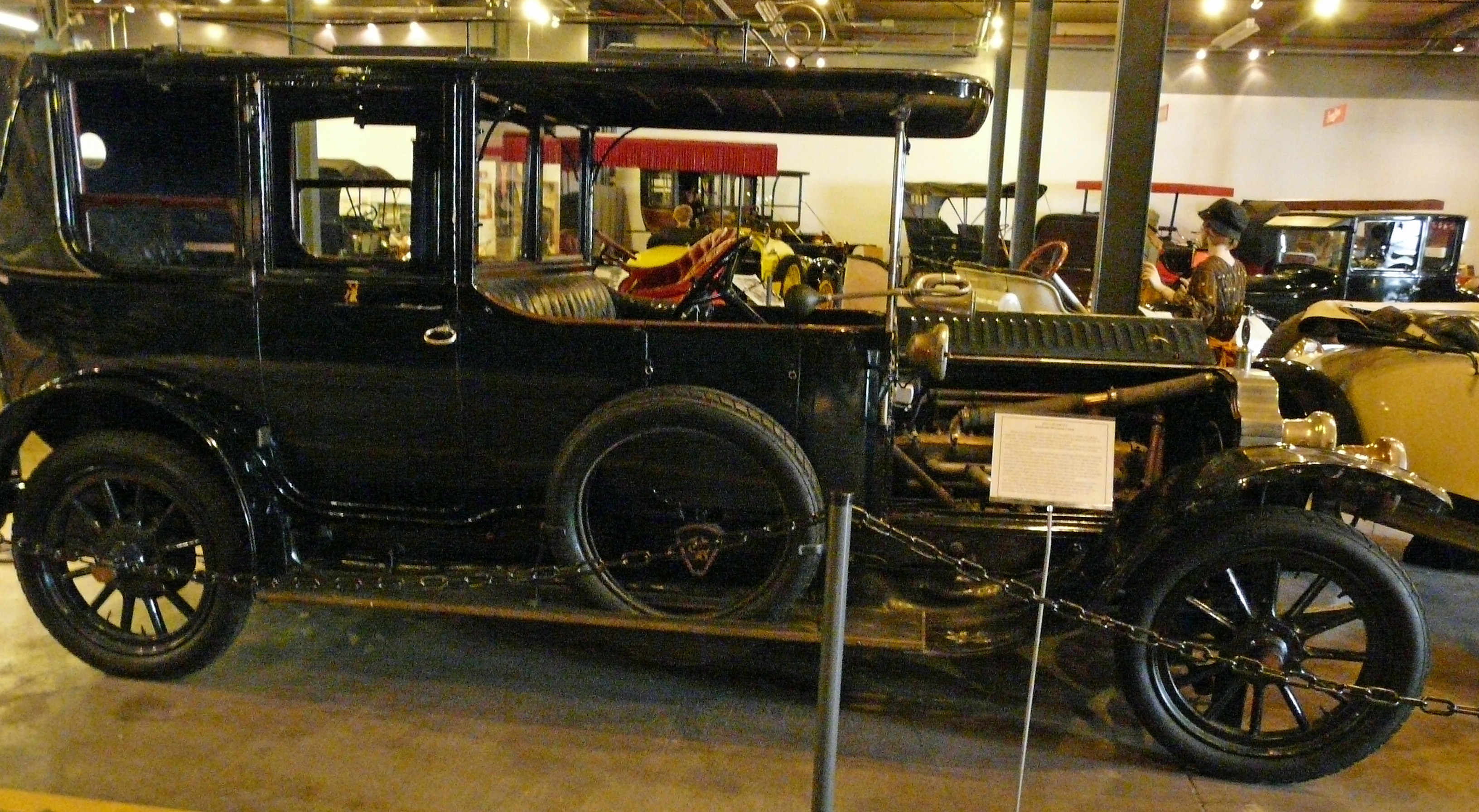 1912 Vauxhall 30hp B-type landaulette Car no. B11.39 Engine no. B11.39, 29.9 hp (6-cylinders 3½ x 4¾ inches, 90 x 120 mm) first owner: Herbert Whitley, Primley House, Paignton Devon Forney Transportation Museum, Denver Colorado